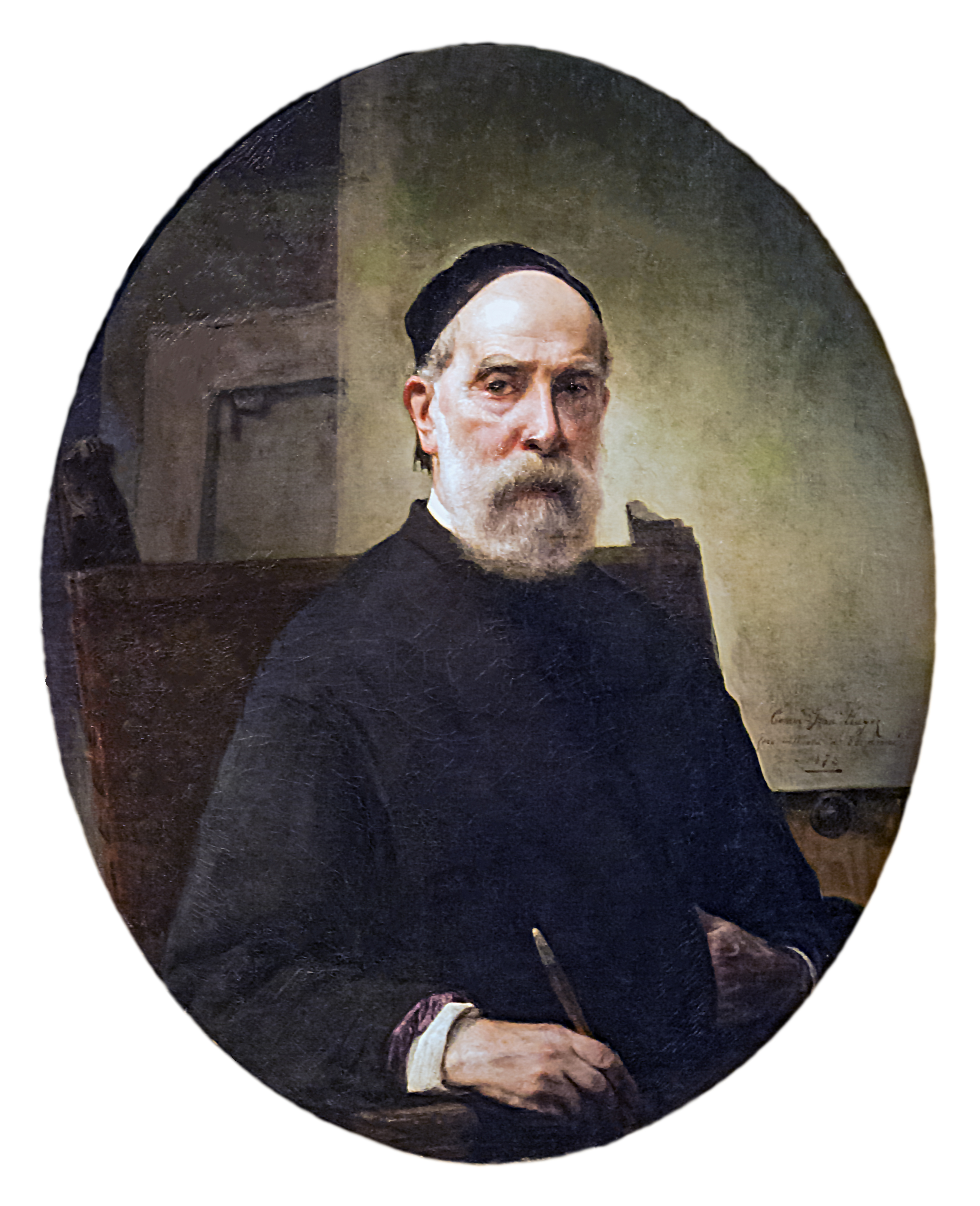 Self-portrait of the painter Francesco Hayez.registration ; Comm'Fran Hayez / did in the age of 88anni /